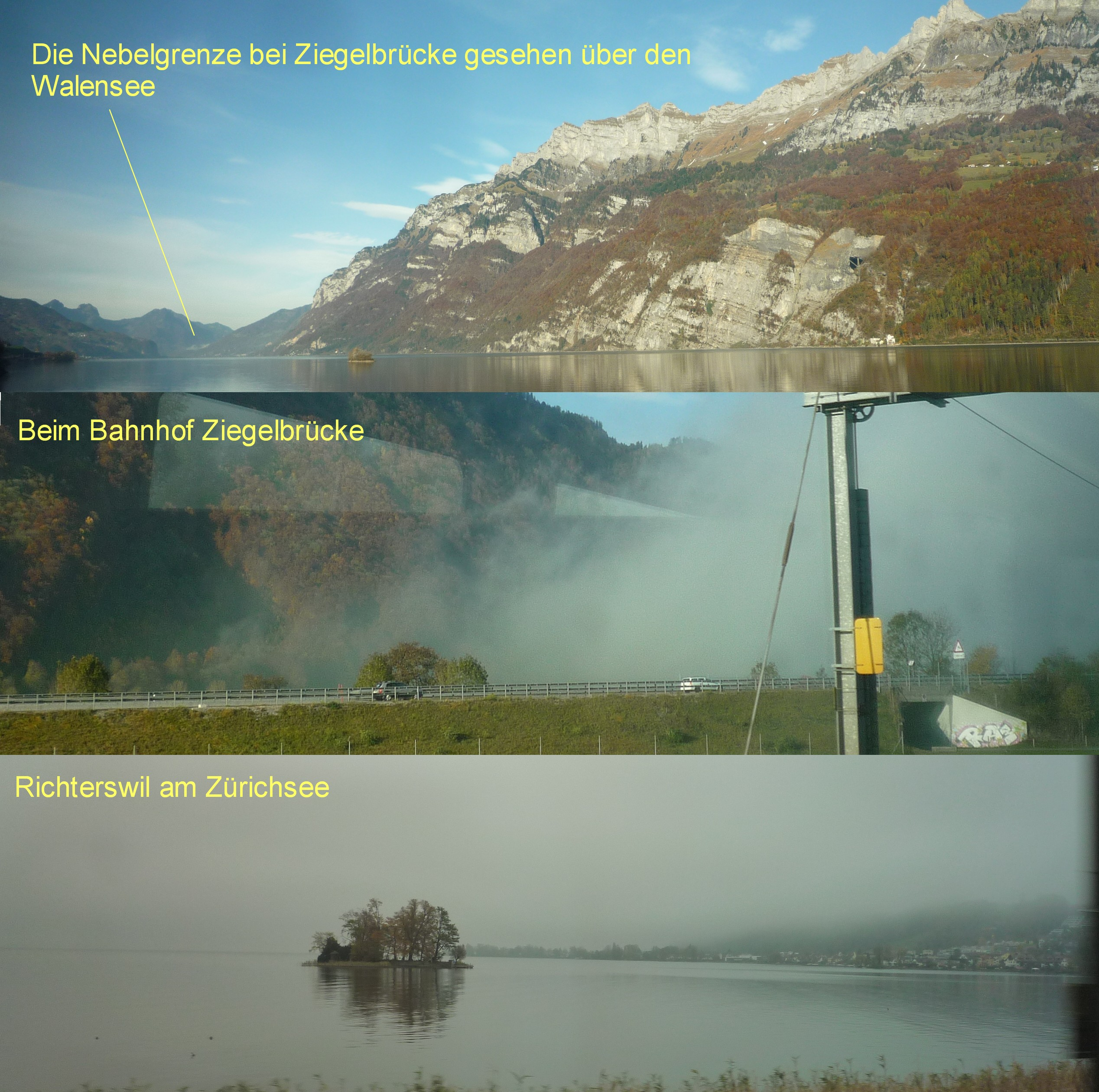 typical autumn weather in Switzerland divided into fog in the flat parts of the country and sunshine in the mountain valleys and mountains. All pictures taken within less than half an hour from the train to Chur that passes the lake of Zurich (bottom image) before reaching Ziegelbrucke and Lake Walensee.